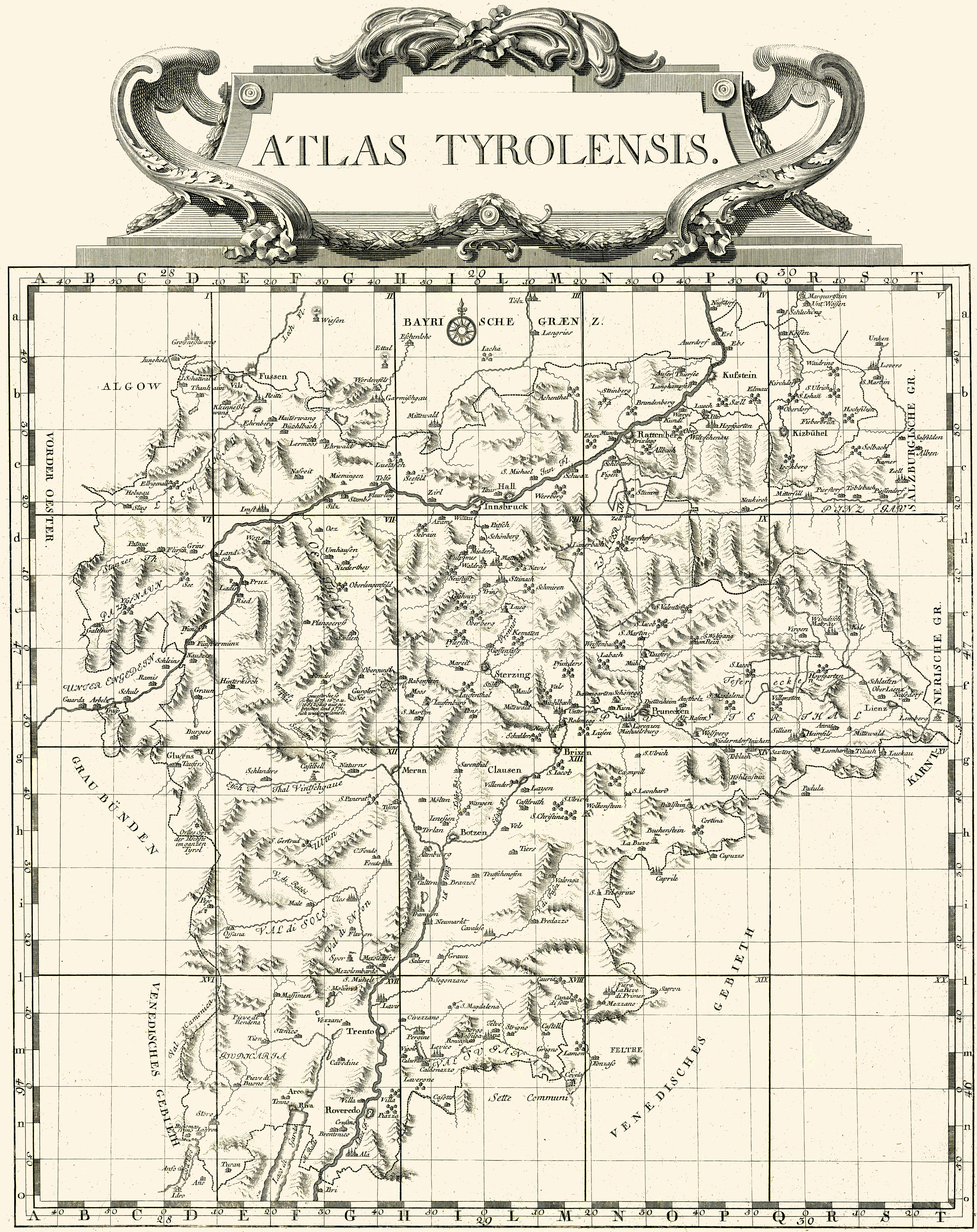 Lower resolution version of "File:Atlas Tyrolensis Übersicht.jpg" uploaded by Svíčková